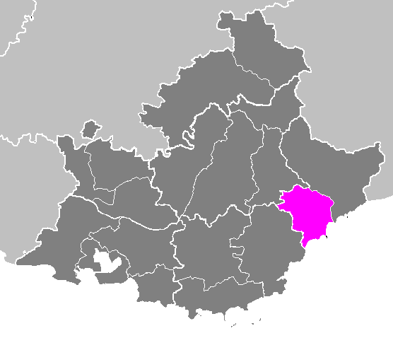 Maps of arrondissements and cantons of France: Arrondissement de Grasse.PNG